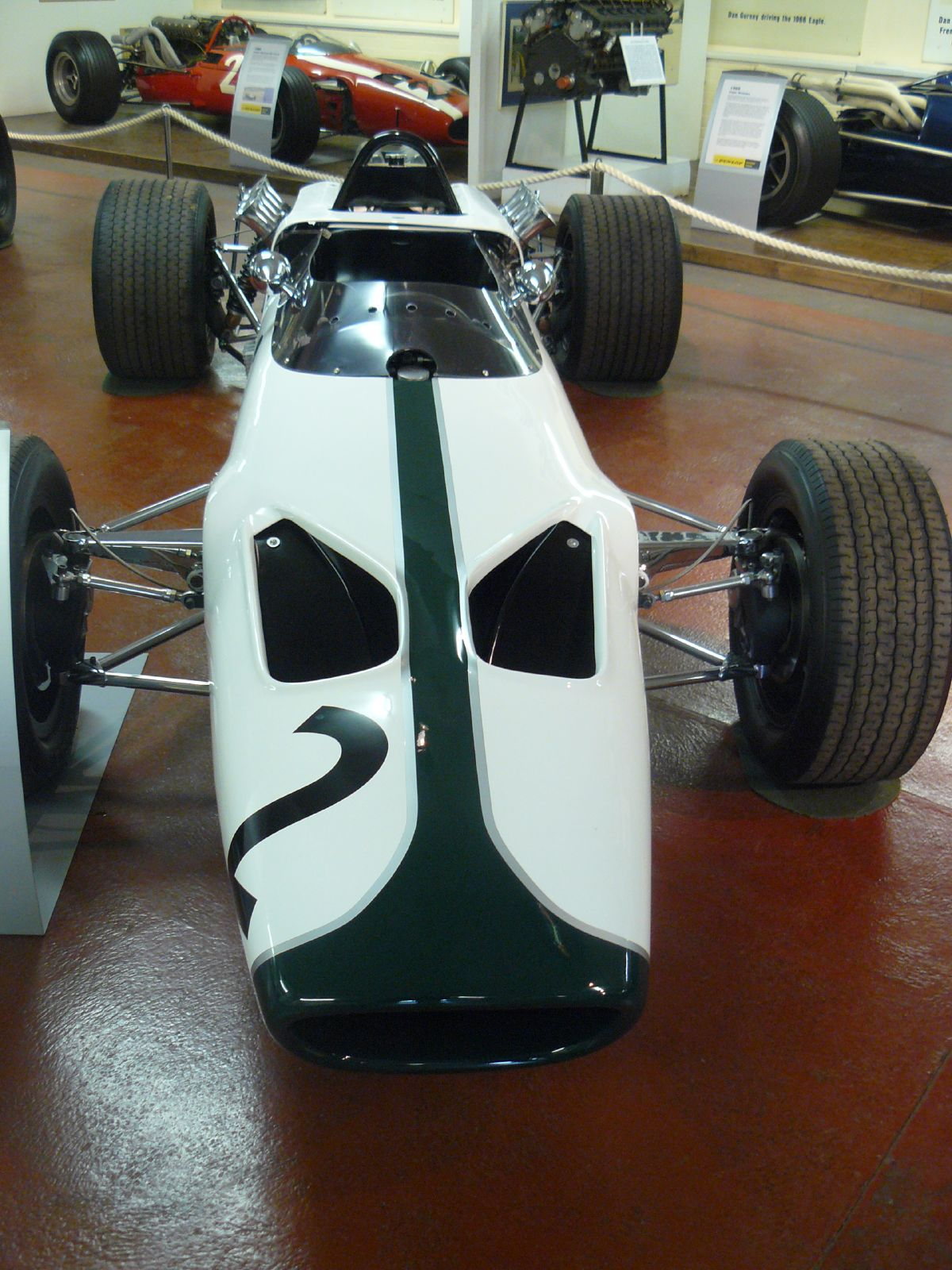 1966 McLaren M2B, the only Formula One Grand Prix which the M2B with car number 2 was 1966 Monaco Grand Prix, the first race for McLaren.